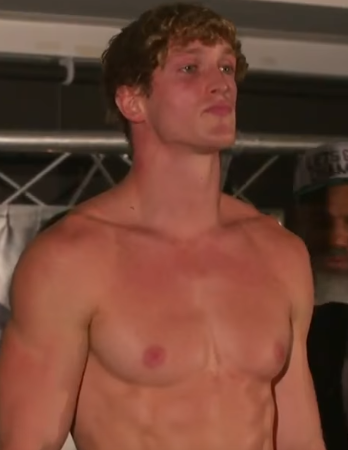 Youtuber Logan Paul during a weigh in for his white collar boxing match against fellow youtuber KSI